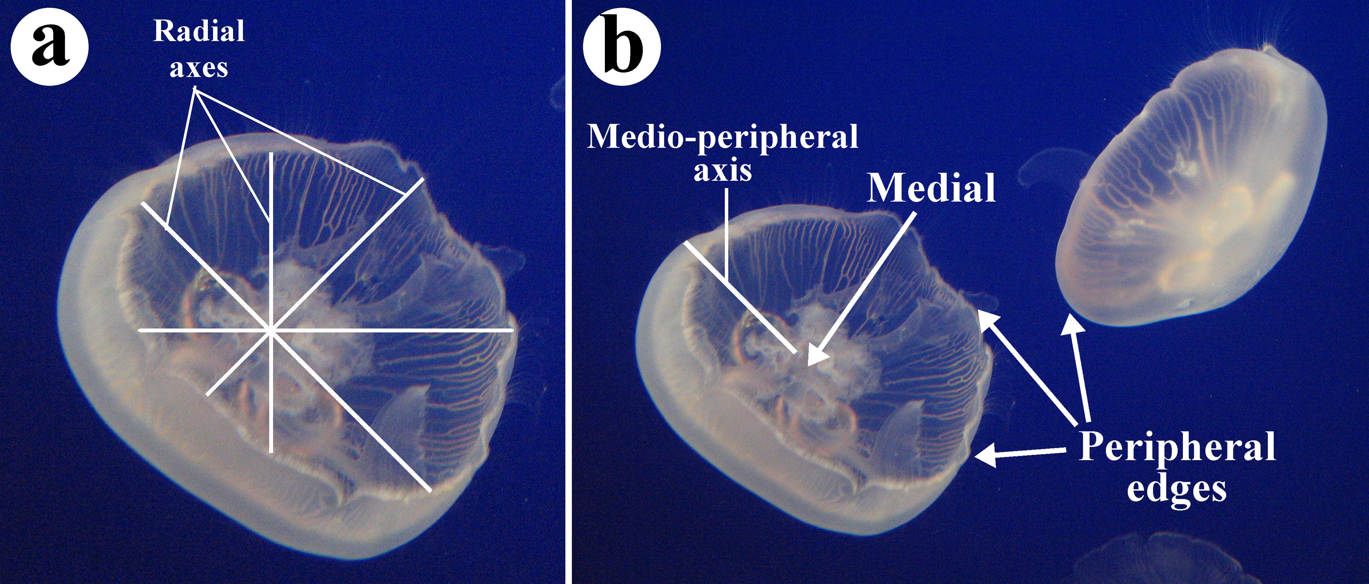 Composite image showing major axes of radiate animals (Aurelia aurita)